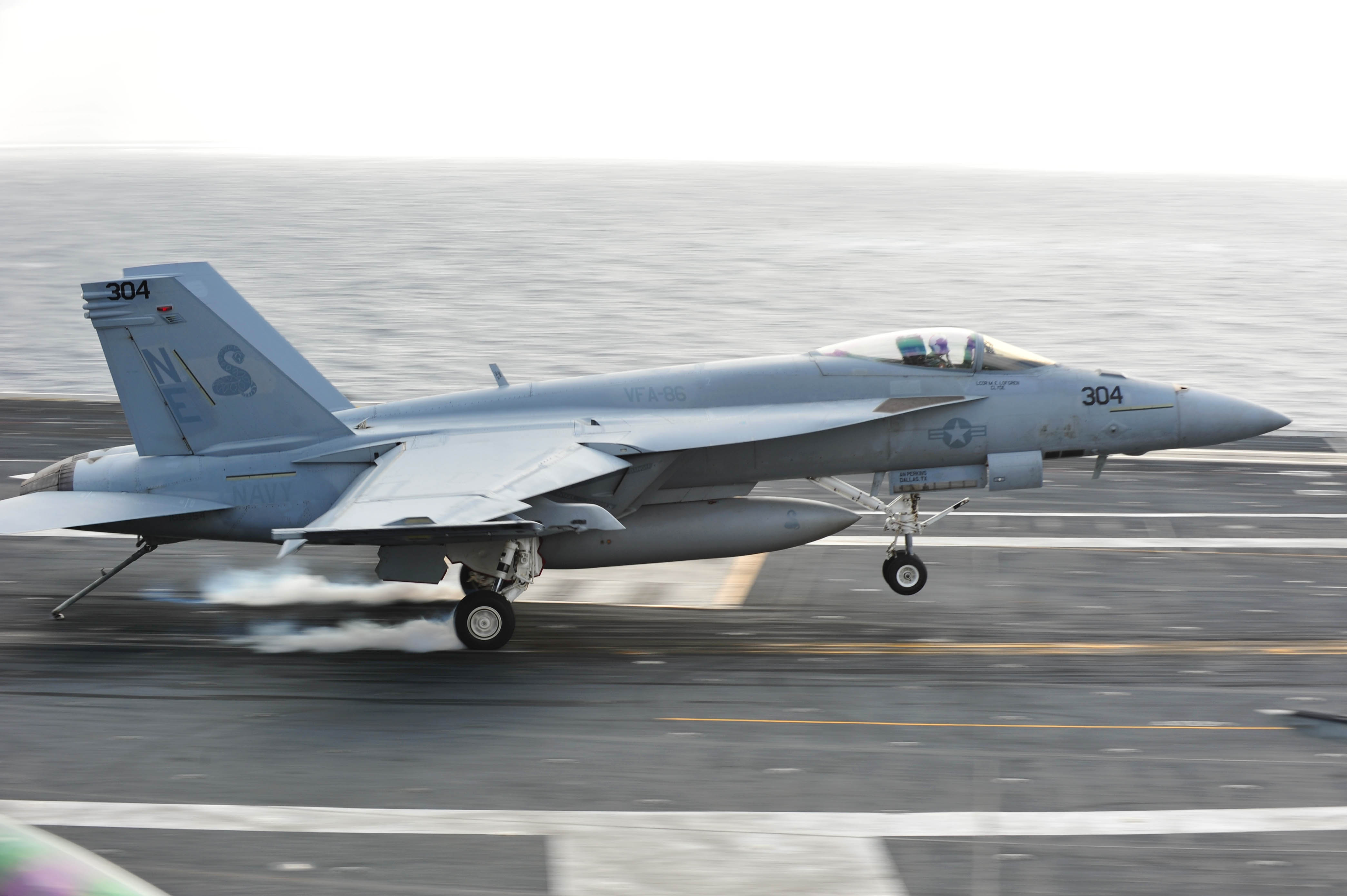 A U.S. Navy Boeing F/A-18E Super Hornet (BuNo 166954) assigned to Strike Fighter Squadron VFA-86 "Sidewinders", performs a touch-and-go landing on the flight deck of the aircraft carrier USS Ronald Reagan (CVN-76). Ronald Reagan and the embarked Carrier Air Wing (CVW) 2 were underway conducting carrier qualifications in the Pacific Ocean.